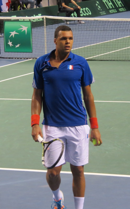 Tsonga against Peter Gojowczyk in quaterfinal World Group Davis Cup 2014 FRA—GER.